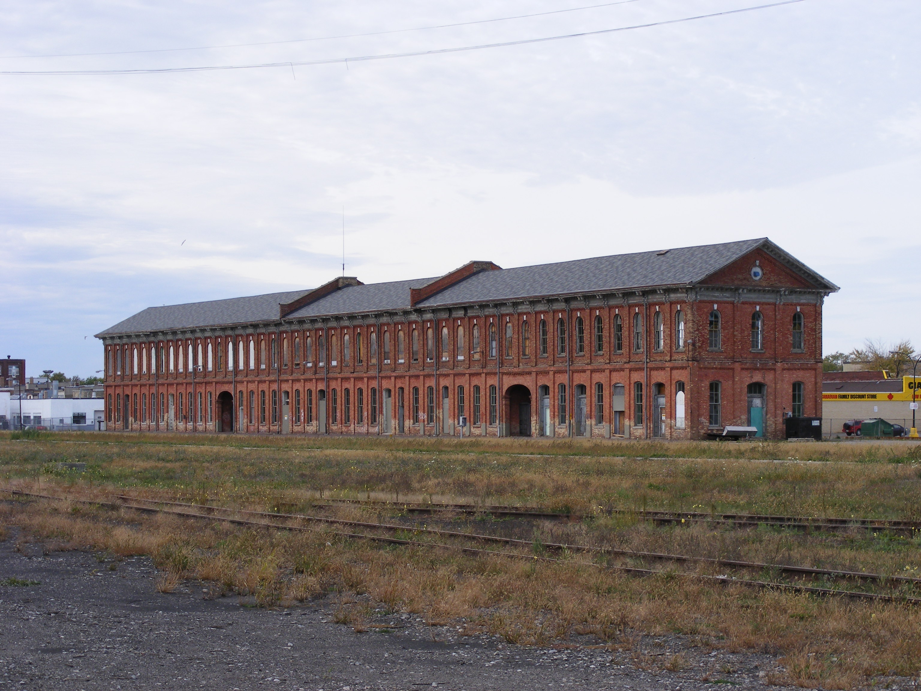 Former railway station in St. Thomas Ontario.